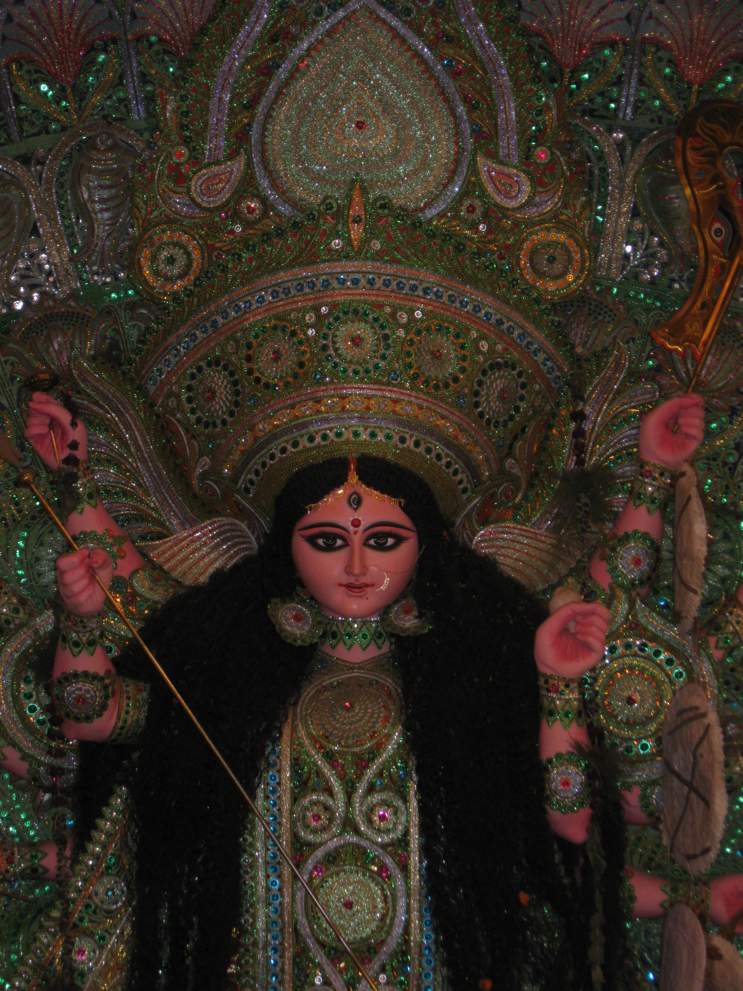 she is killing Mahisasur